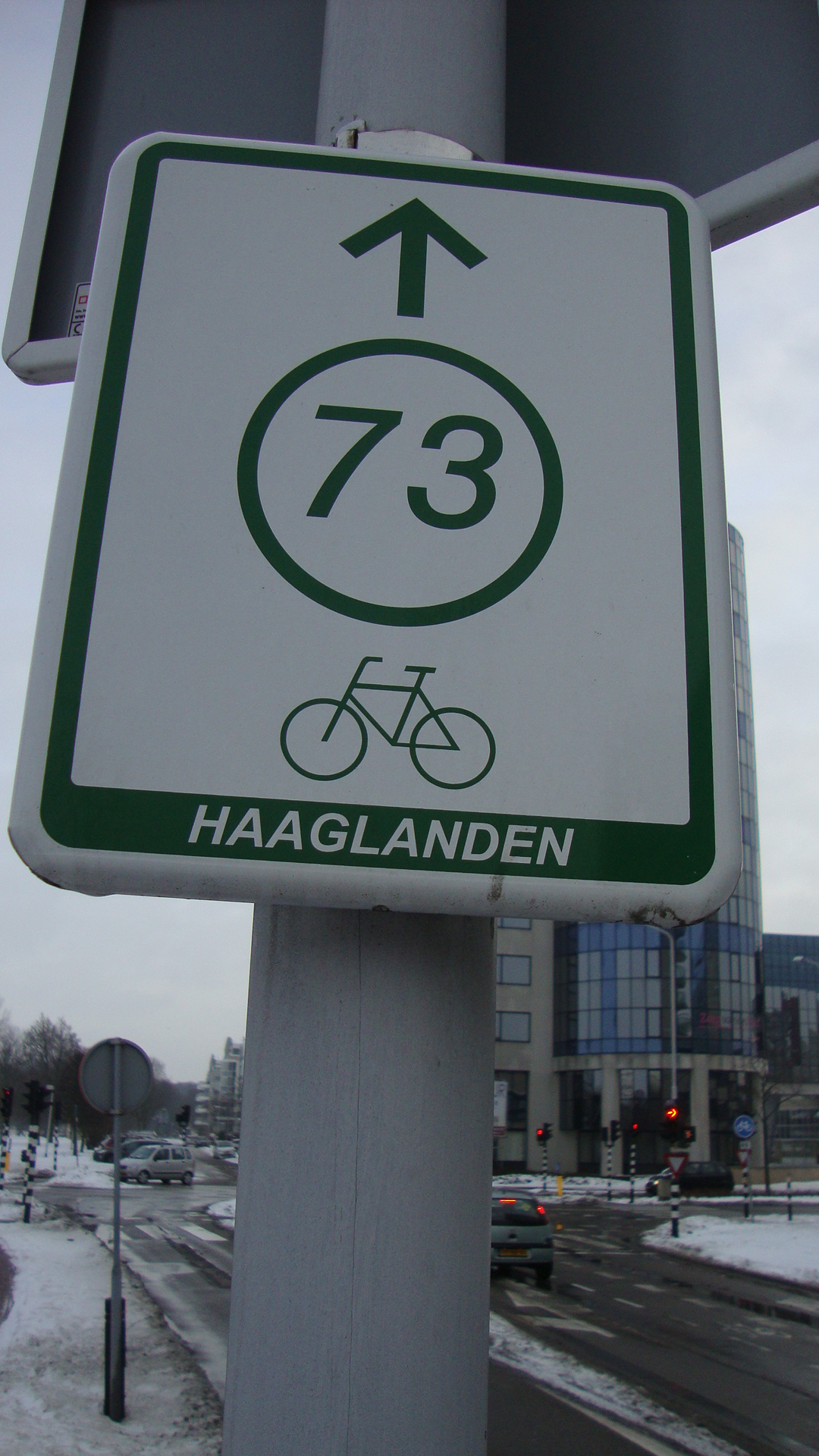 Cycle node network sign Haaglanden